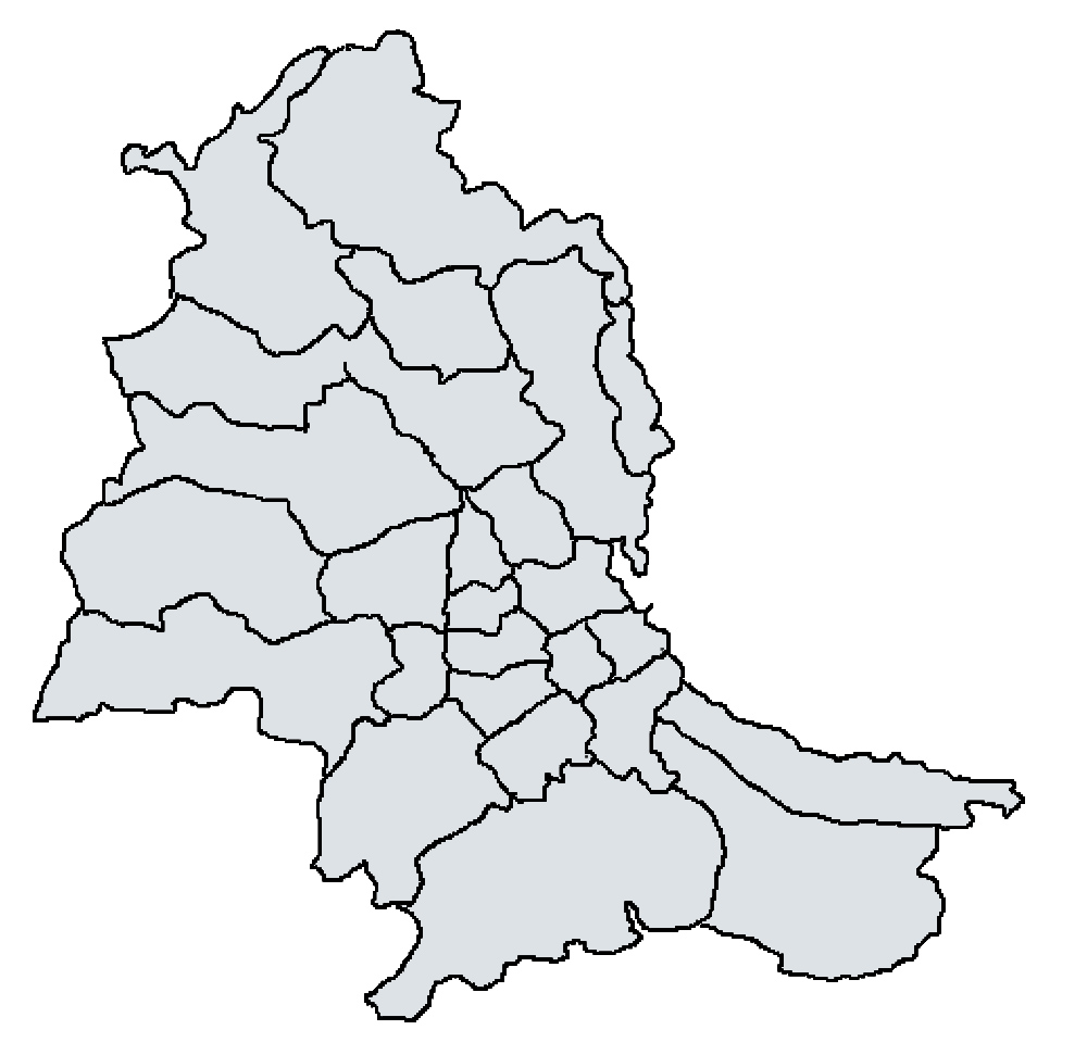 Map of the districts of Palermo